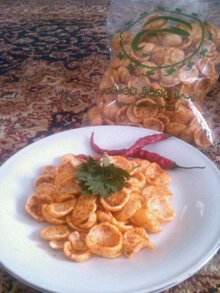 seblakjanghaji